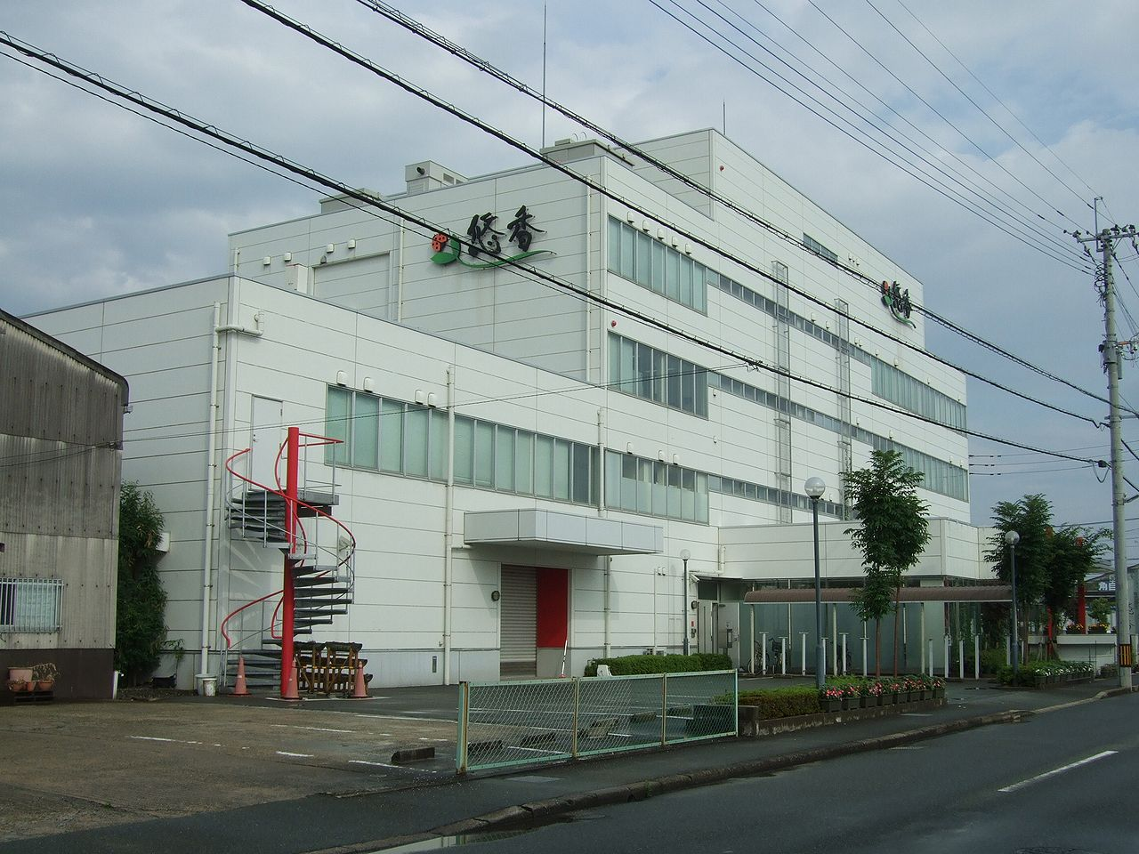 Yuuka headquarters, Onojo City, Fukuoka, Japan.